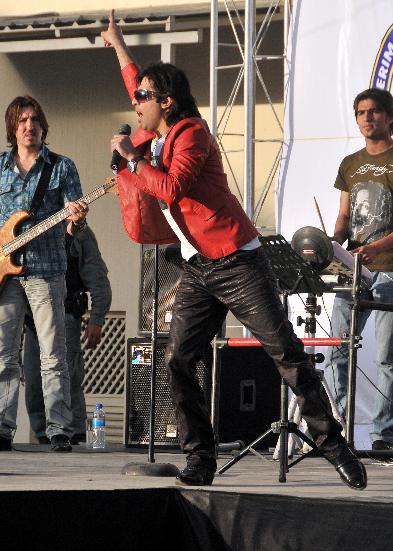 Afghan artist Aryan Khan performs for the members of the Afghan National Civil Order of Police at the ANCOP compound in Kabul, Afghanistan, June 12. The Welcome Home Ceremony and two hour concert honored the ANCOP who recently returned from the Helmand Province. (Photo by U.S. Air Force Staff Sgt. Markus M. Maier)